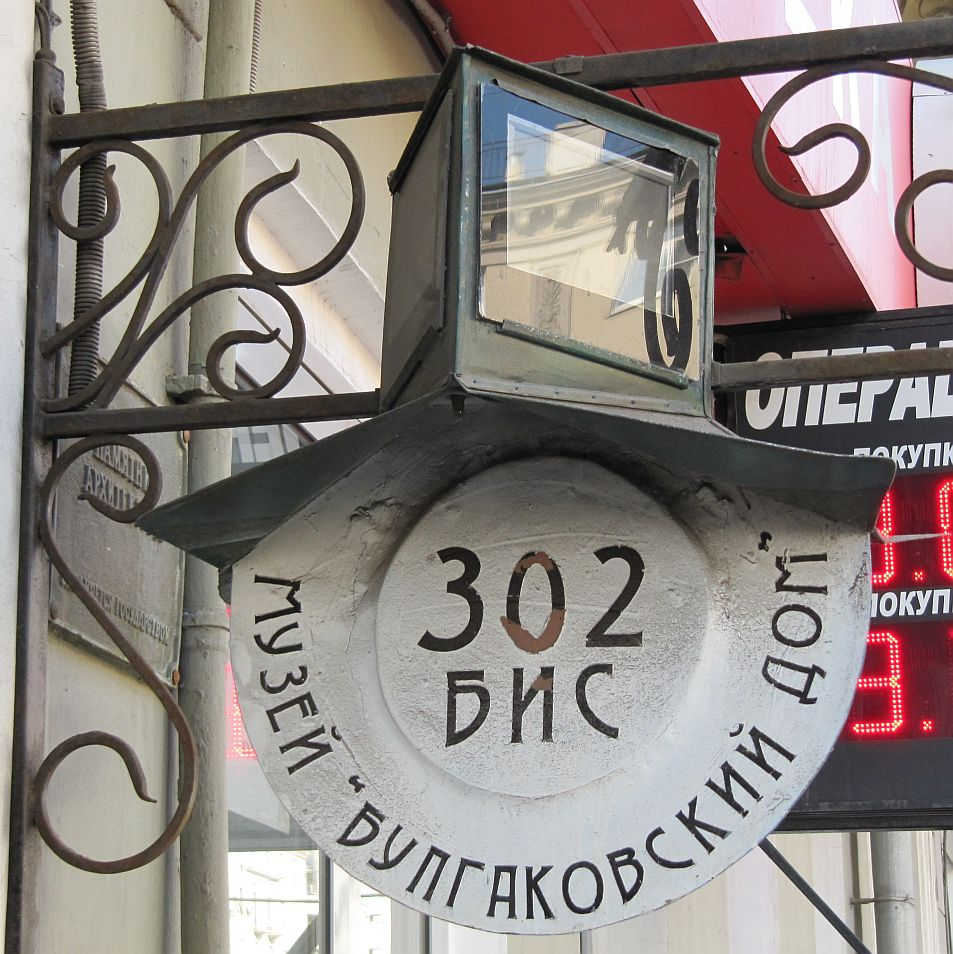 The Museum "Bulgakov House" 302 BIS. Moscow, Bolshaya Sadovaya Street, 10.